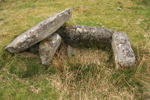 Joan Ford's Newtake cist This well preserved burial chamber with its surrounding circle of low stones lies just inside of the north wall of the newtake on the west side of the Swincombe valley.